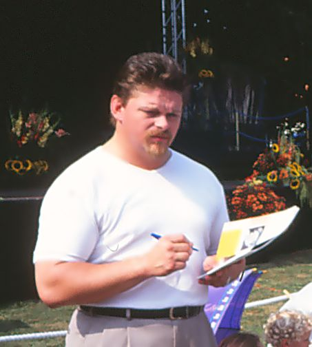 Stig Rossen in the park at Sanderumgaard, Fyn, Denmark. August 24, 1997.